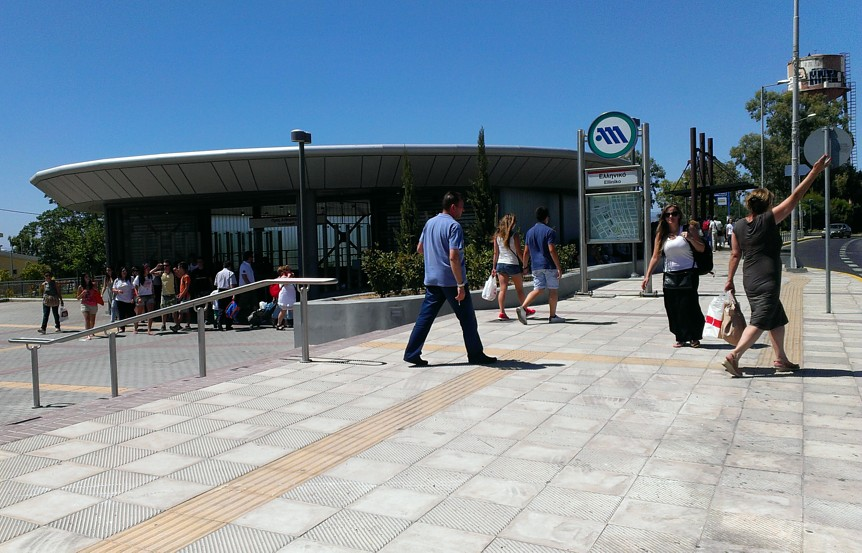 elliniko